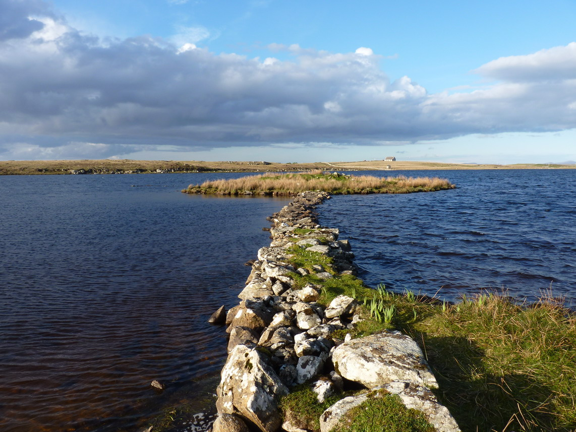 The causeway to the settlement Eilean Dhomhnaill in Loch Olabhat